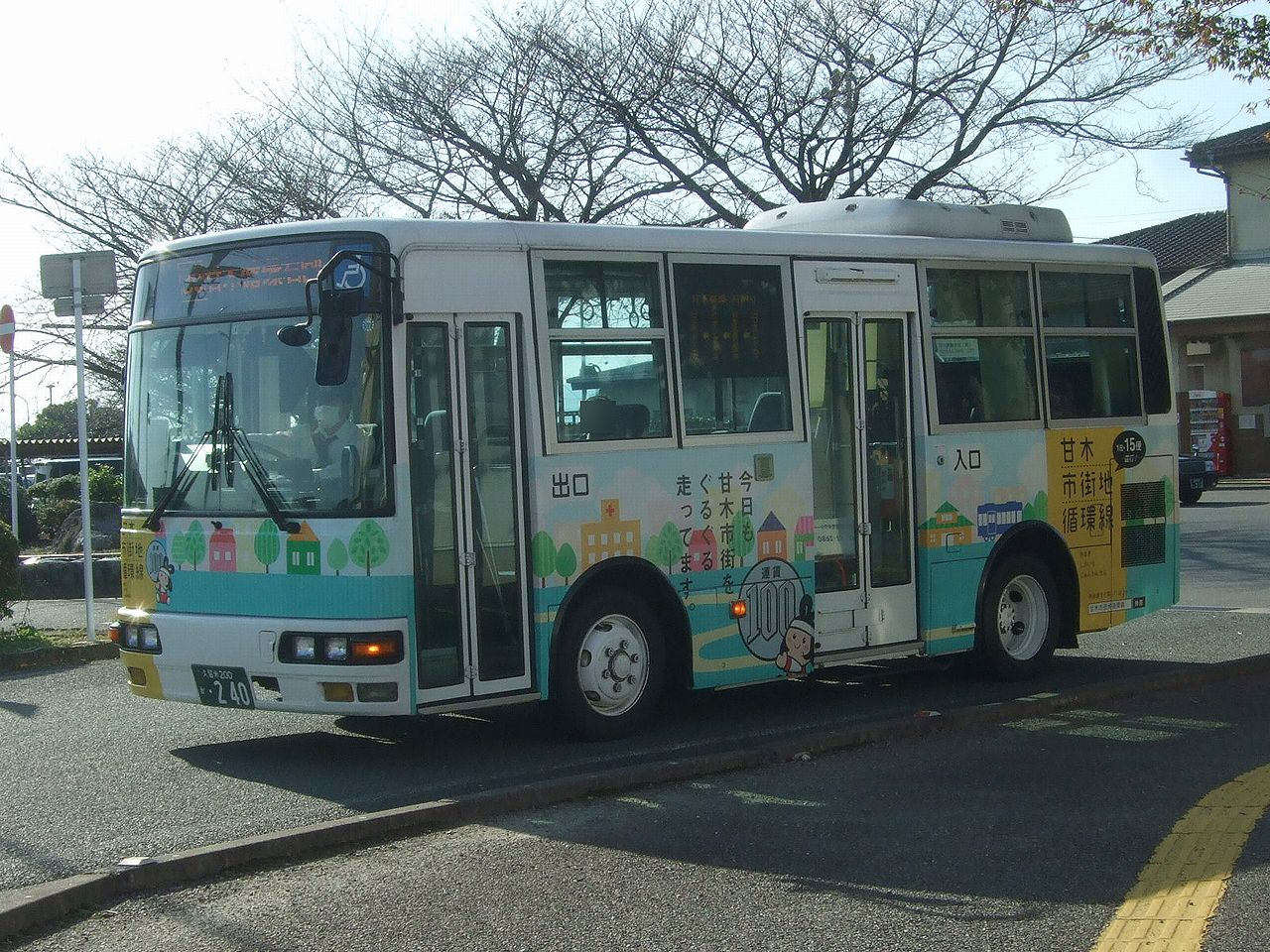 Company:Amagi Kanko Bus Use:transit bus Car license:FOR200 KA 240 Chassis manufacturer:Mitsubishi Motors Type:Aero Midi Coachbuilder:Mitsubishi Bus Manufacturing Location:in Asakura City, Fukuoka, Japan.